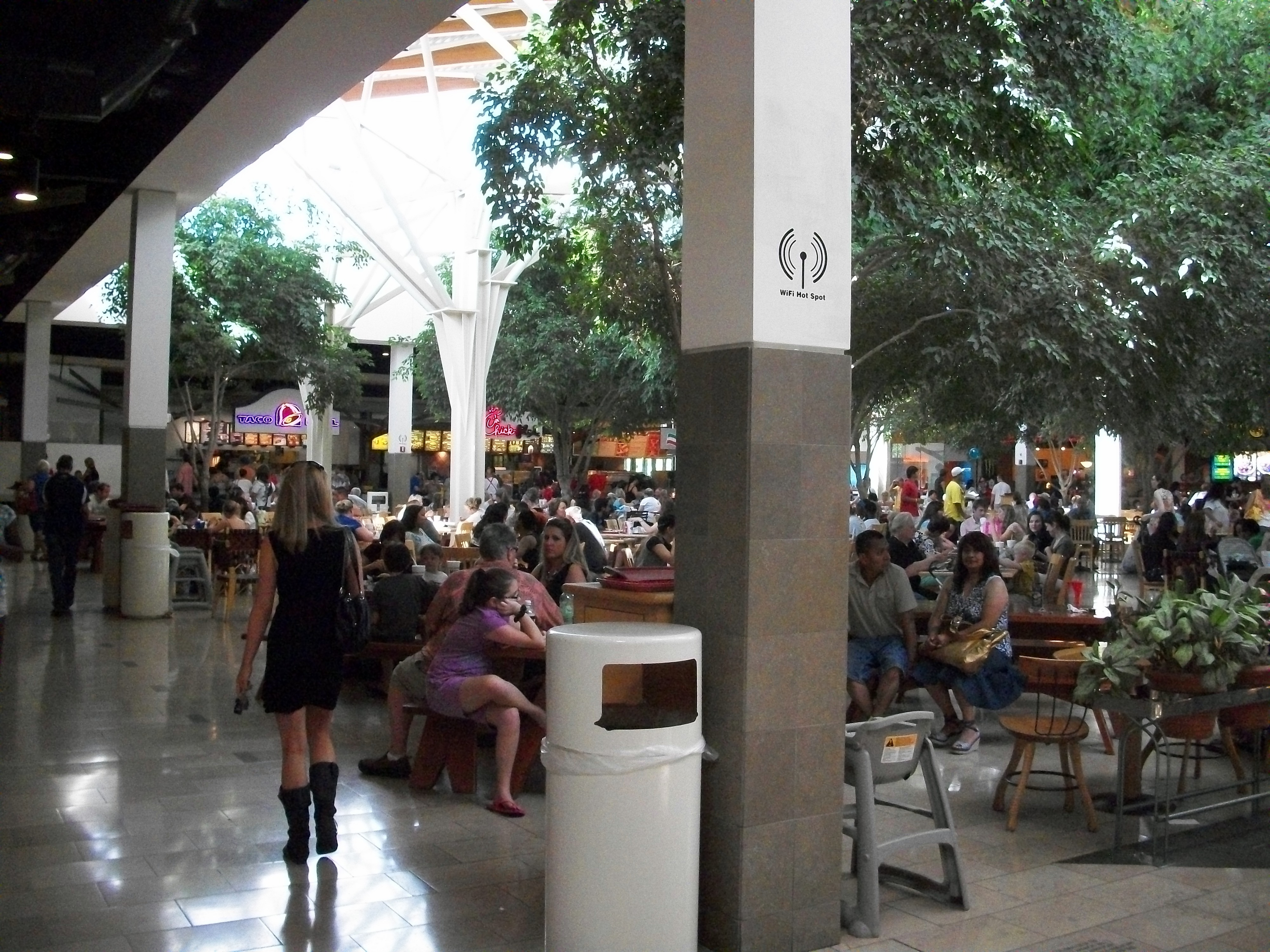 A full food court at the Northwest Arkansas Mall in Fayetteville, AR